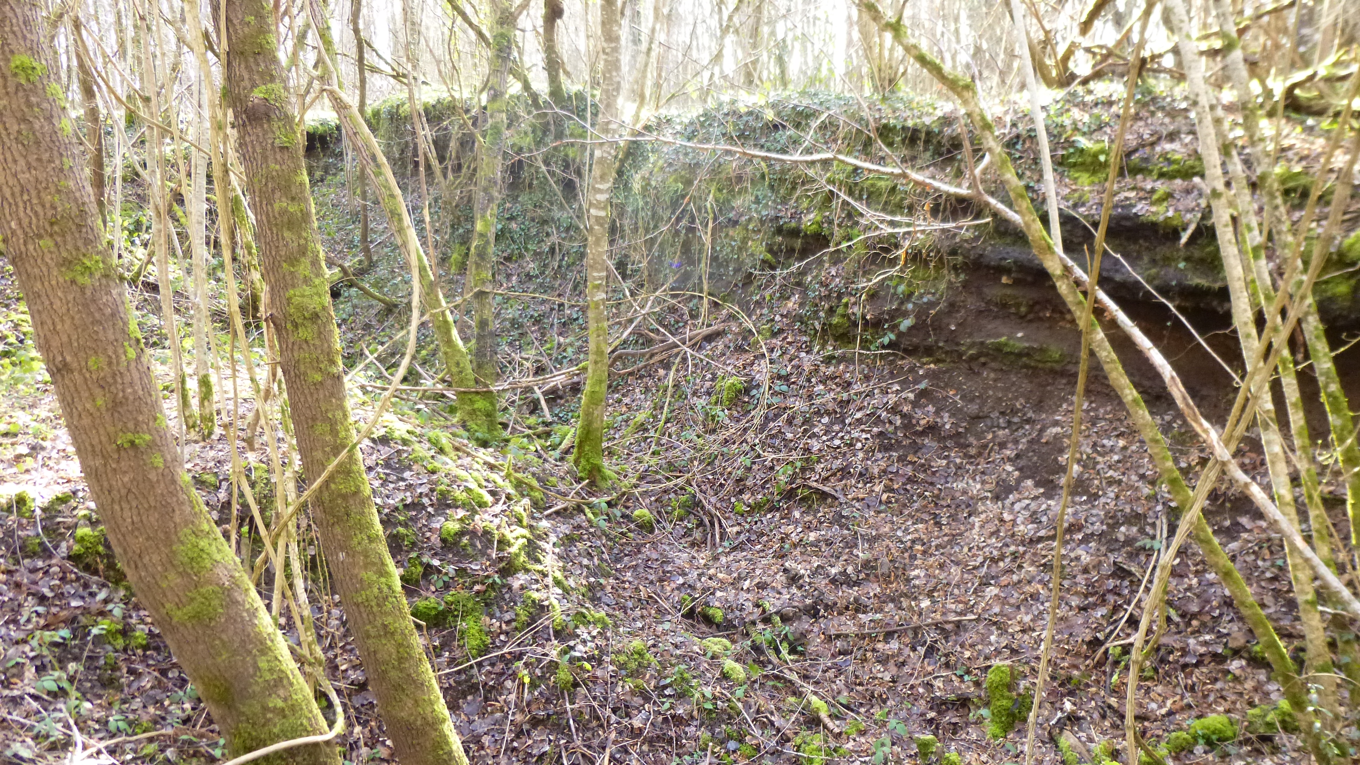 The "ferrier", Tannerre-en-Puisaye, Yonne, Burgundy, France. A mound of slag has been mined for reuse of the slag. Strata clearly visible.